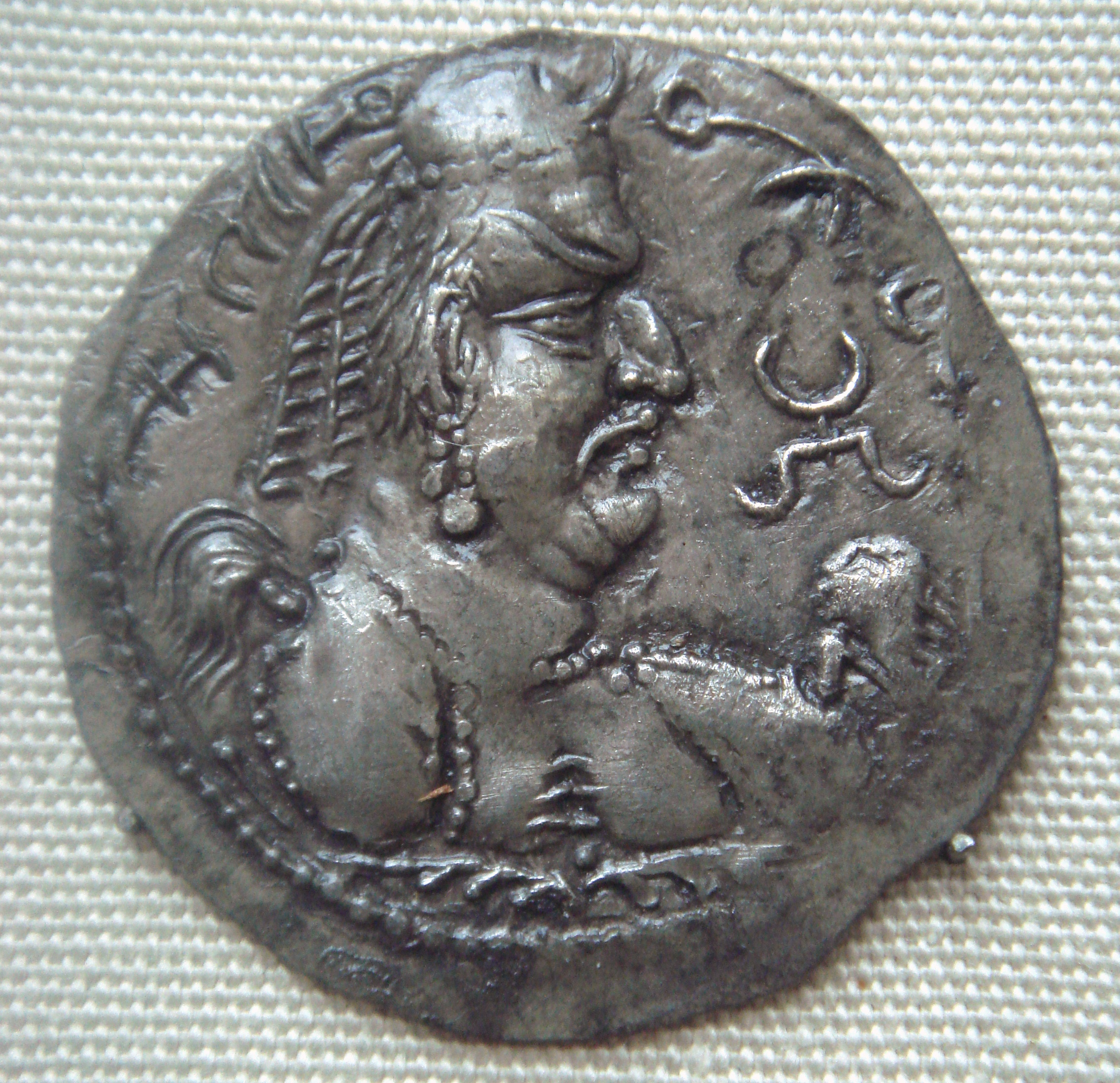 Huna coin, 5th century. Ruler Khingila [1]